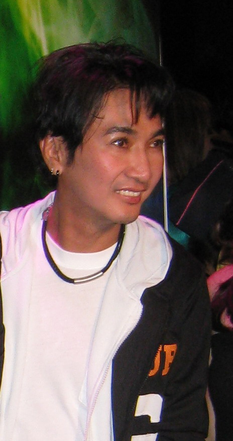 Kai Warayuth